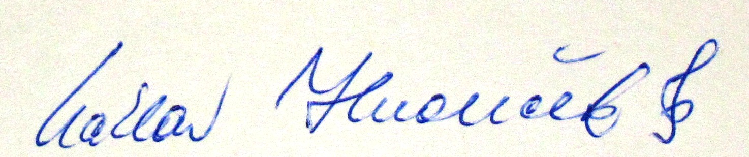 Signature of Václav Hudeček, Violinist from the Czech Republic (1984)